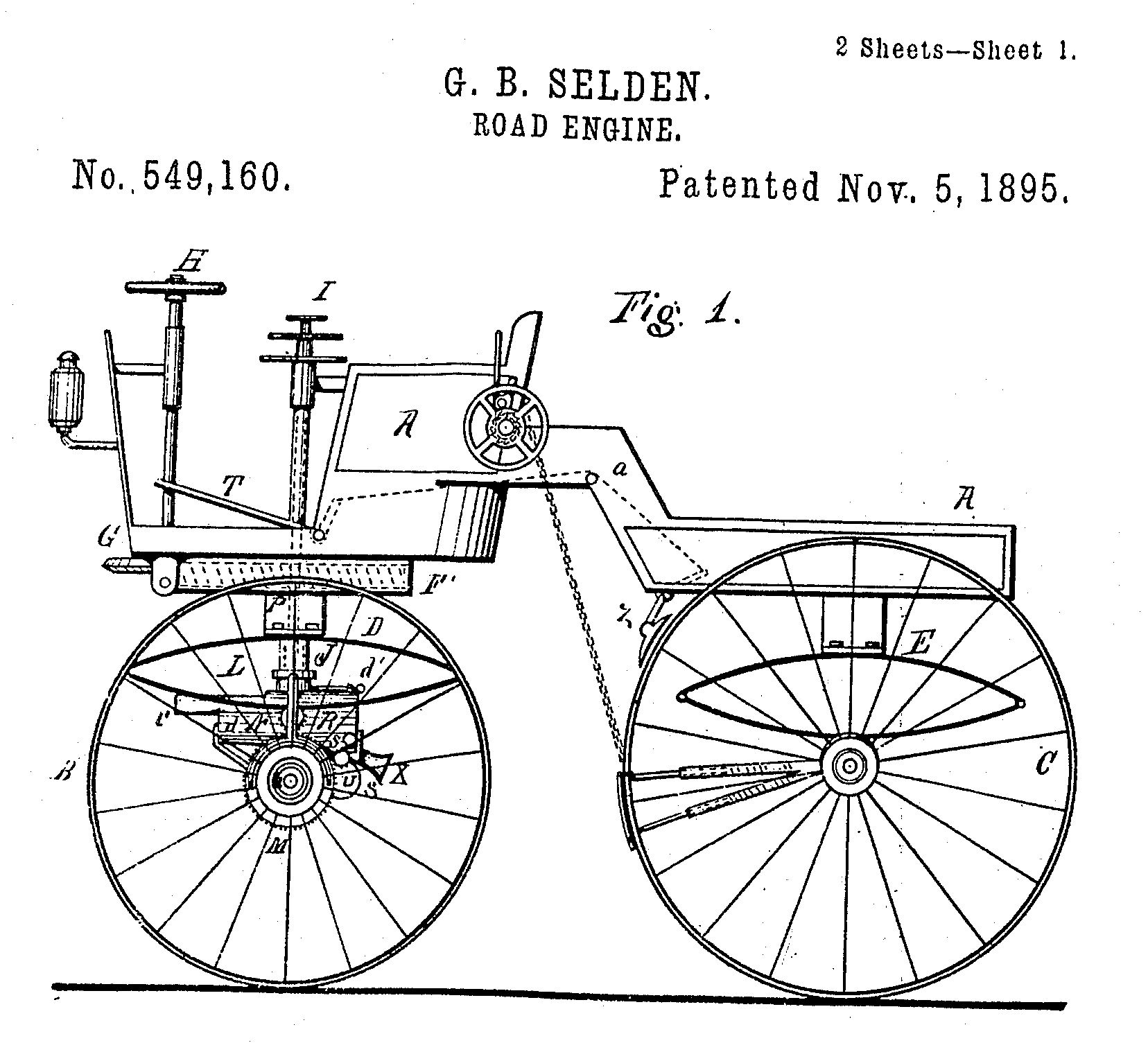 George B. Selden Road engine patent drawing, 1879. Patentr was granted, No 549,160, 4 November, 1895.